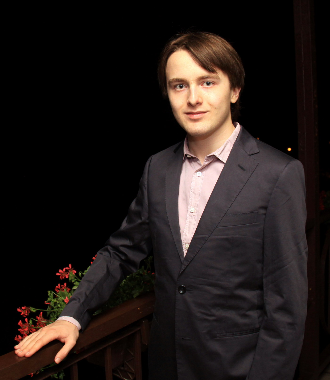 Daniil Trifonov - Russian concert pianist. Busko-Zdrój, 4 July 2012.